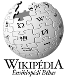 Logo of Sundanese Wikipedia